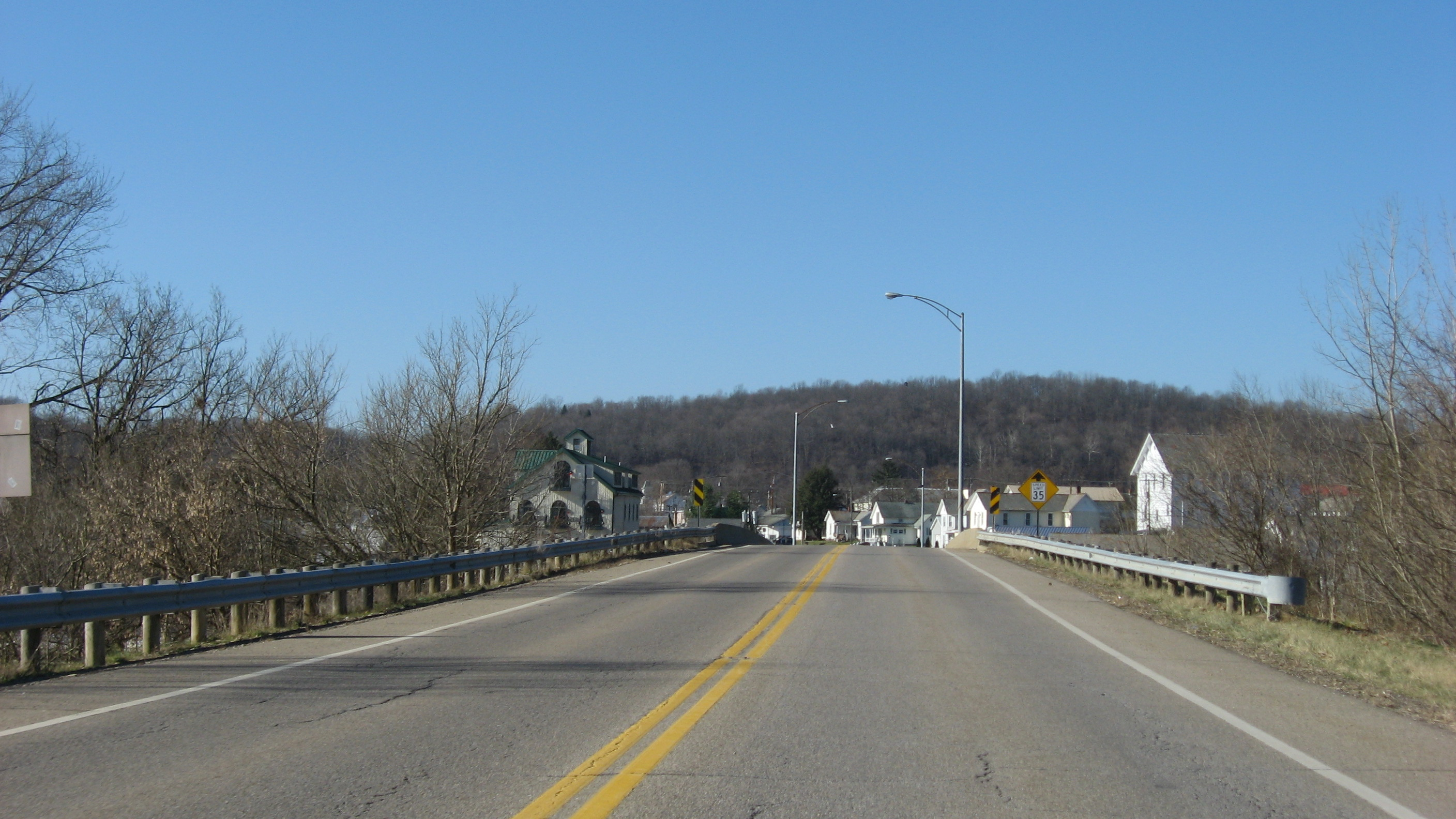 Looking westward along the Stockport Bridge, which carries State Route 266 across the Muskingum River at Stockport, Ohio, United States. It was constructed in 1979.